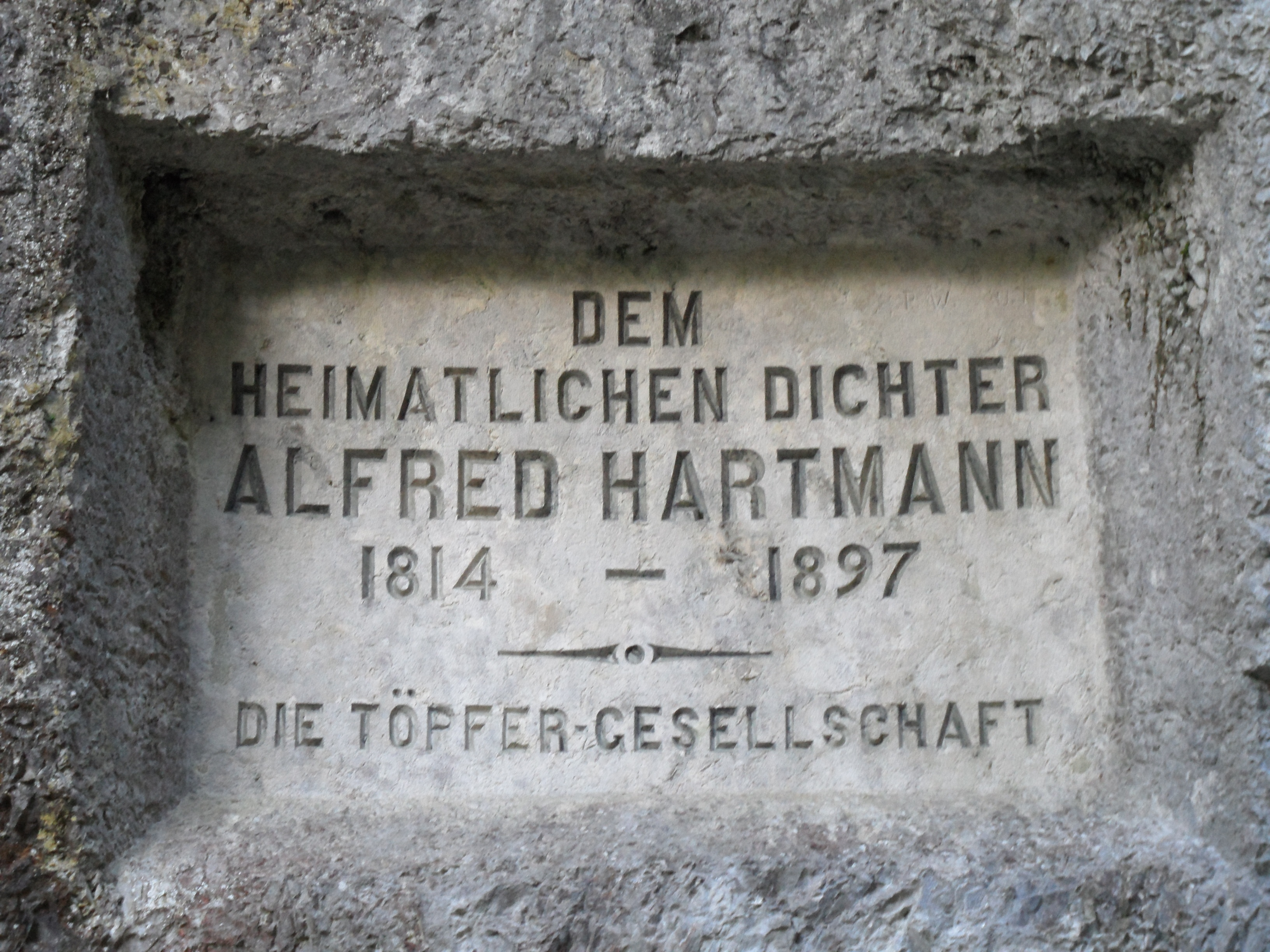 Commemorative plaque for the writer Alfred Hartmann (1814-1897) at Verenaschlucht near Solothurn, Switzerland.